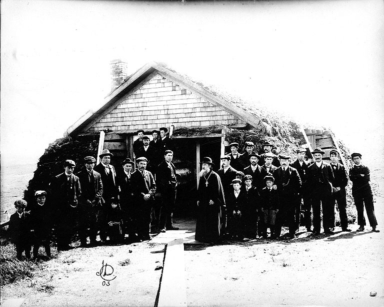 Caption on image: J.D.C. 05 . On verso of image: Seal Islands PH Coll 334.Doody 1 Subjects (LCSH): Aleuts--Alaska--Seal Islands; Russian Orthodox Greek Catholic Church of America--Clergy--Alaska--Seal Islands; Portraits, Group--Alaska--Seal Islands